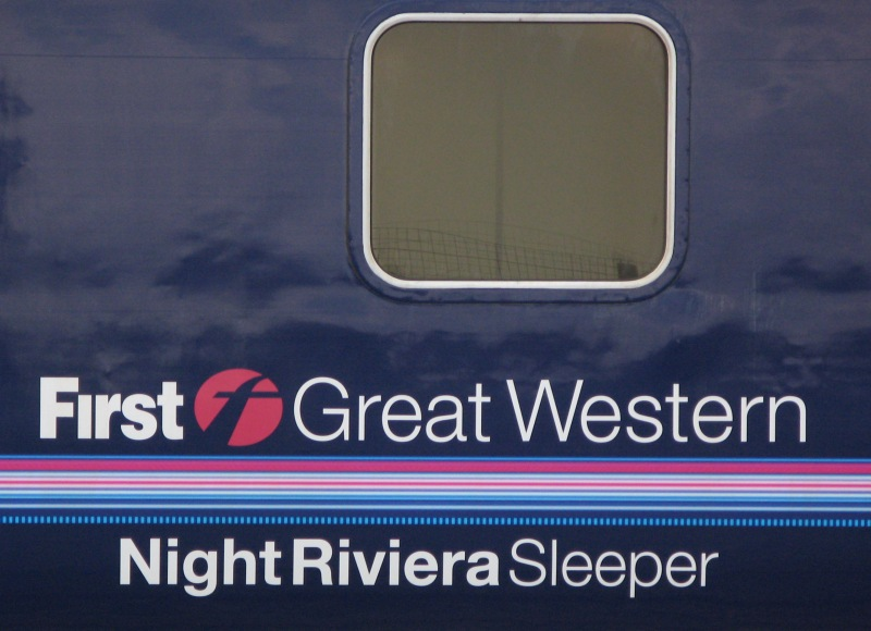 The 'Night Riviera' branding on a First Great Western sleeping coach. This service operates between Penzance and London Paddington station in England.